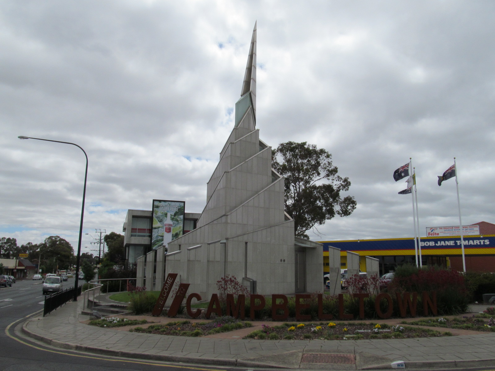 City of Campbelltown (SA) - welcome monument - Montacute Road / Lower North East Road, Campbelltown.